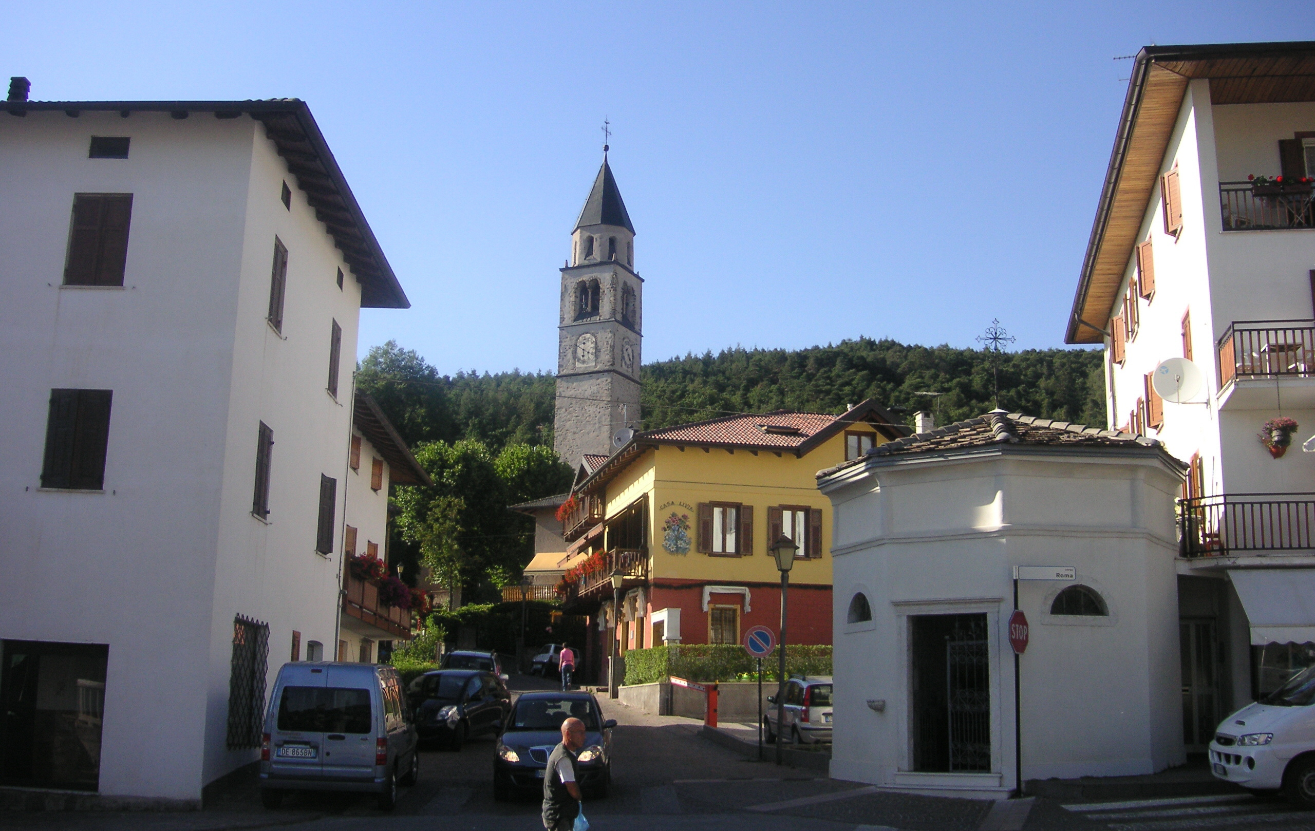 Via don Giuseppe Vergot in Baselga di Piné from the crossing with Corso Roma/Via delle Scuole. In the background the bell tower of the ancient parish church of Santa Maria Assunta